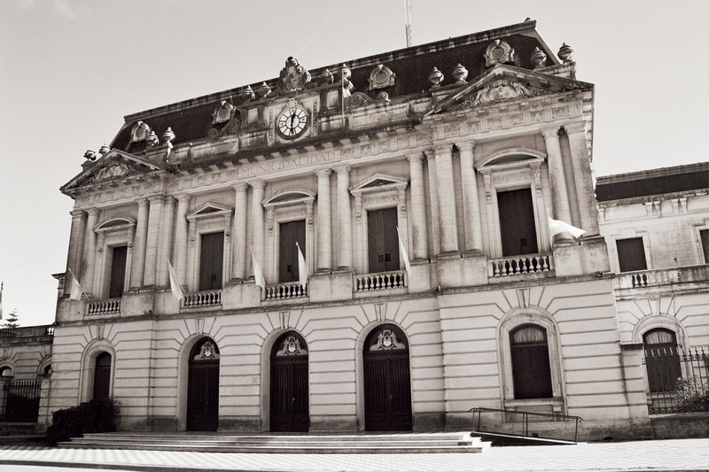 Bragado City Hall. Bragado, Buenos Aires Province, Argentina.